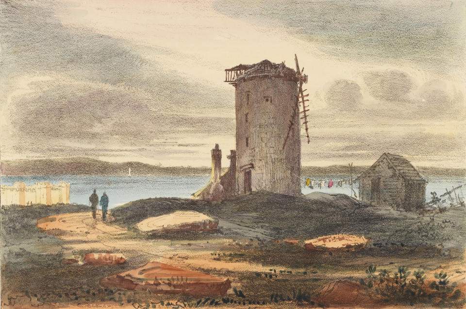 Old Windmill. Government Domain, 1836, lithograph, printed, published, and sold, by J.G. Austin, State Library of New South Wales PXA 662